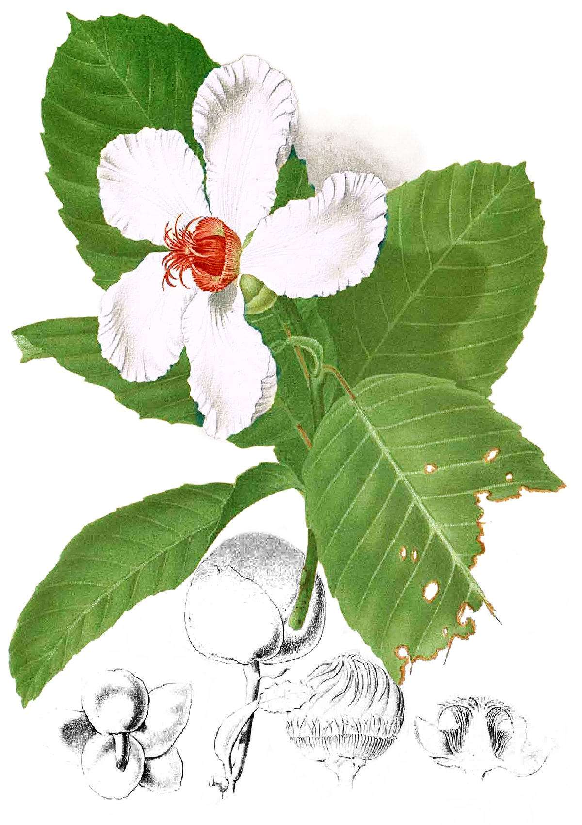 Dillenia philippinensis Plate from book